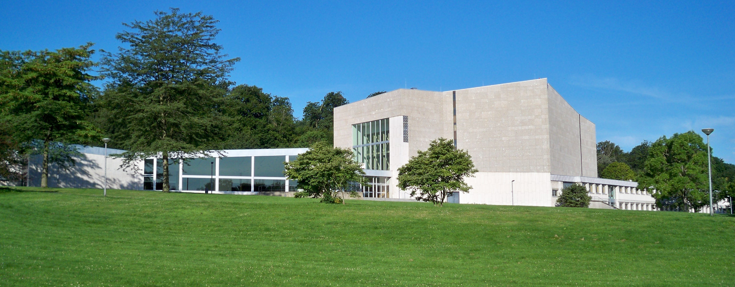 Wolfsburg, Lower Saxony, Scharoun-Theater